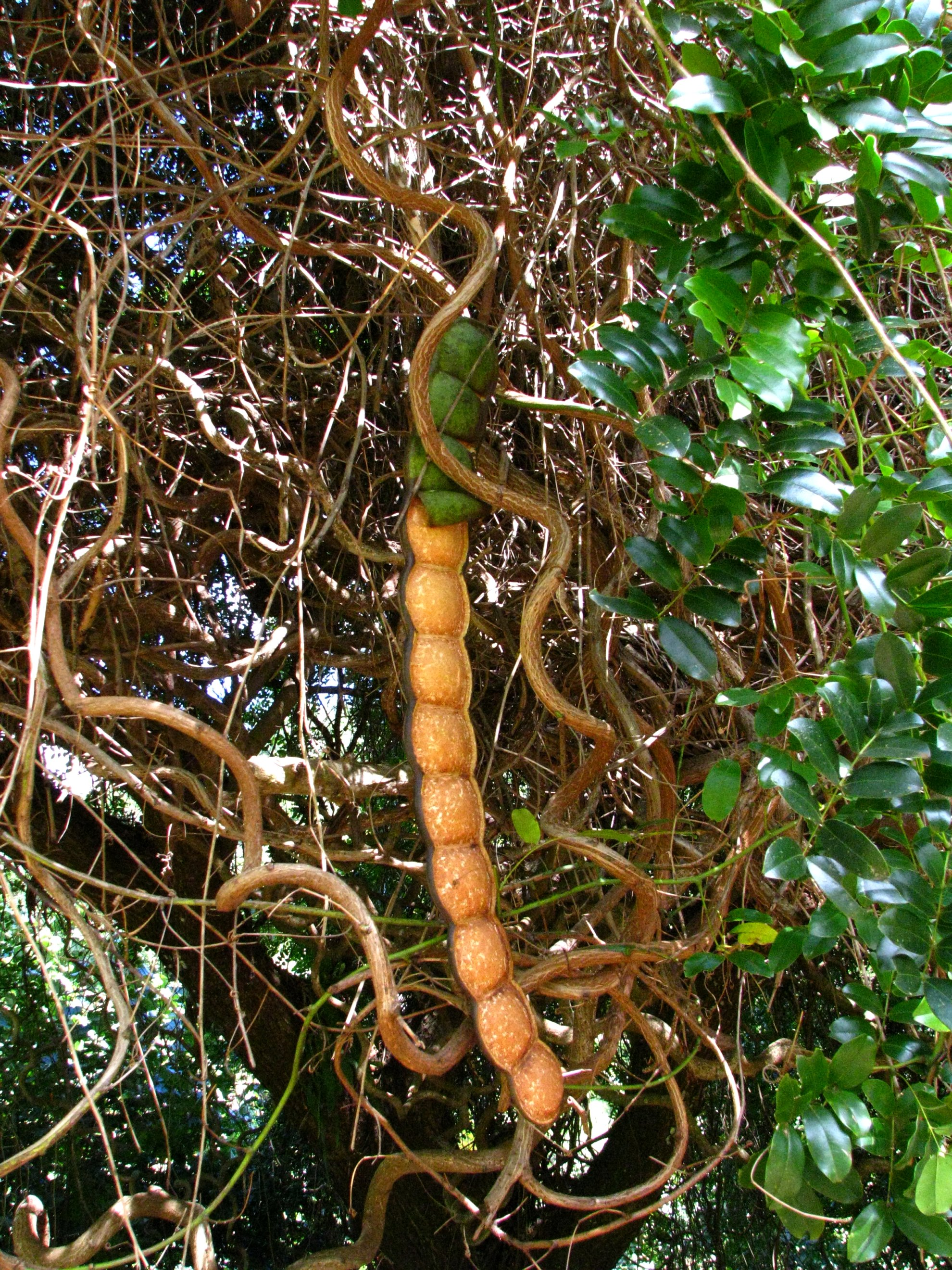 St. Thomas bean Fabaceae Possibly indigenous to the Hawaiian Islands (known only from one location on Kauaʻi) Kauaʻi (Cultivated) The pods can be 4-6 feet long and contain from 10-20 seeds! The tough stems are used for coarse cables and jump ropes. The lianas provide a potable, watery sap that is drunk in times of need. In Tonga, it is used for medicinal purposes.